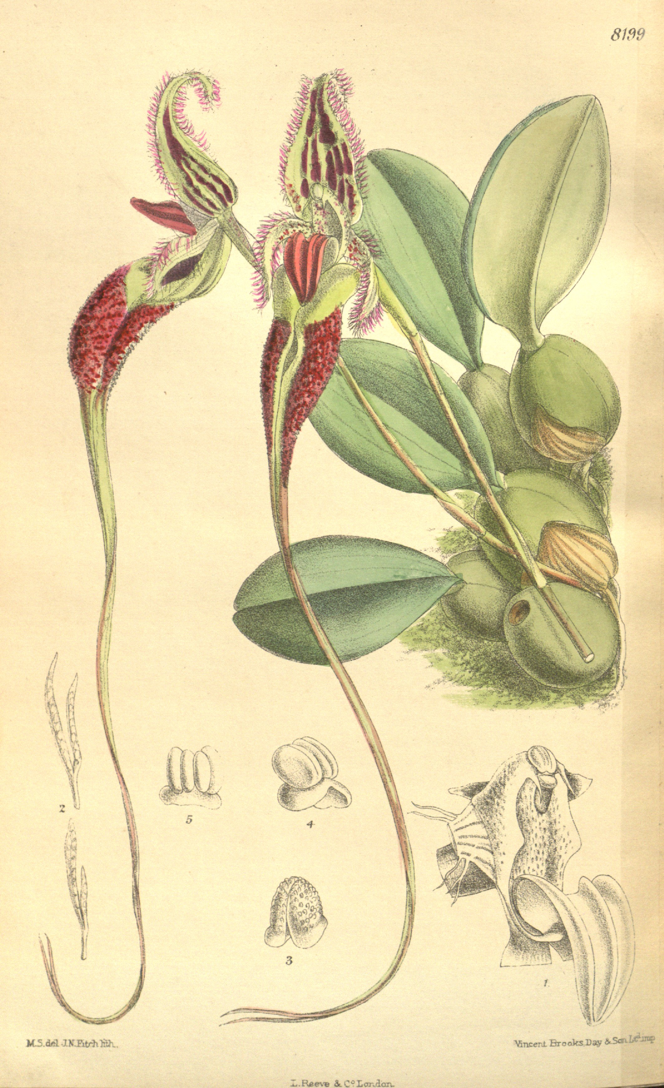 Illustration of Bulbophyllum fascinator